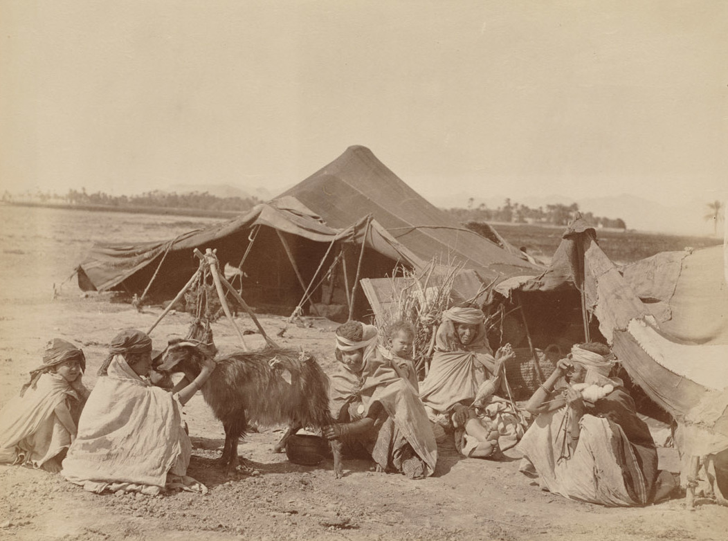 BPLDC no.: 08_04_000343 Page Title: Arab camp near Biskra Collection: Tupper Scrapbooks Collection Album: Volume 1: Algeria. Call no.: 4098B.104 v1 (p. 19) Creator: Tupper, William Vaughn Genre: Scrapbooks; Albumen prints Extent: 1 photographic print mounted on page : albumen ; page 33 x 39 cm. Description: Scrapbook page contains one photograph showing Arab men, women, and children at an encampment near Biskra. Notes: Page description supplied by cataloger, derived from captions and/or annotated information.; Caption on image: Campement Arabe 1958 BPL Department: Print Department Rights: No known restrictions. Flickr data on 2011-08-15: Camera: Sinar AG Sinarback 54 FW, Sinar m License: CC BY 2.0 User: Boston Public Library BPL